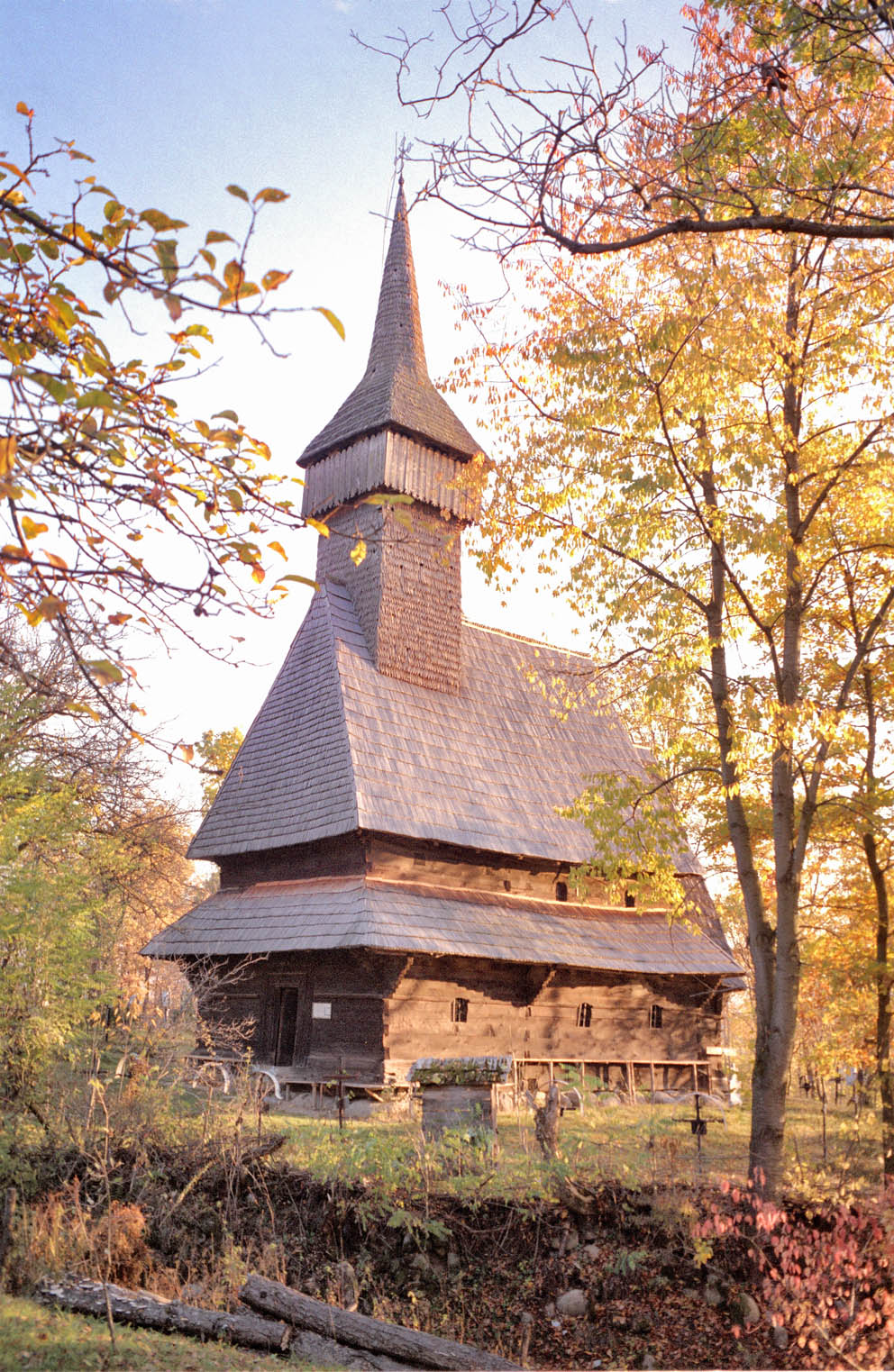 Sârbi Susani church